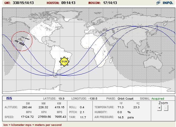 ISS ground track obtained on NASA site.